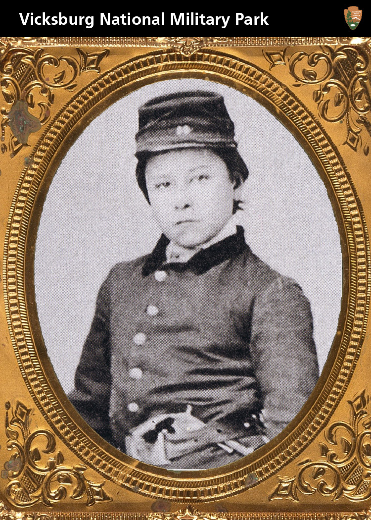 Serving with the 55th Illinois Infantry at the age of 14, Orion Howe volunteered for a dangerous mission during the battle for Vicksburg and was seriously wounded below Stockade Redan. For his bravery, Orion was awarded the Medal of Honor—one of the youngest to earn it. PresidentLincoln appointed him to the US Naval Academy.